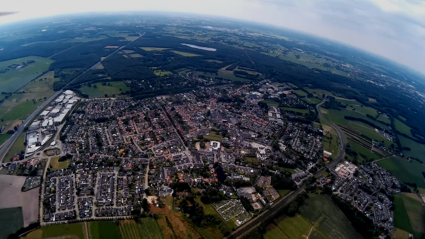 A photograph of Moergestel, taken on 28th of june 2015 with a drone